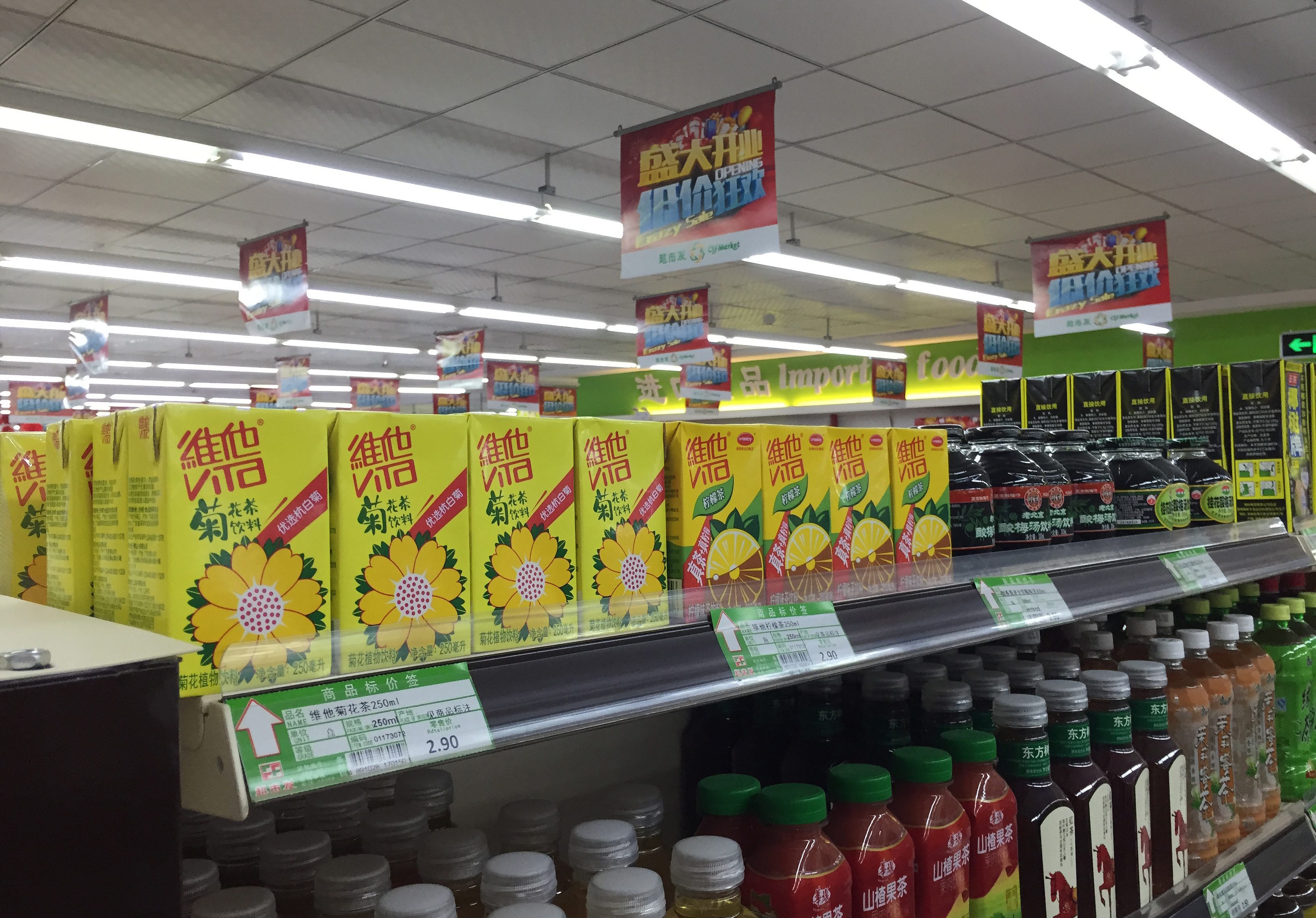 VLT has become a meme...and it appeared even in this remote area in Haidian.